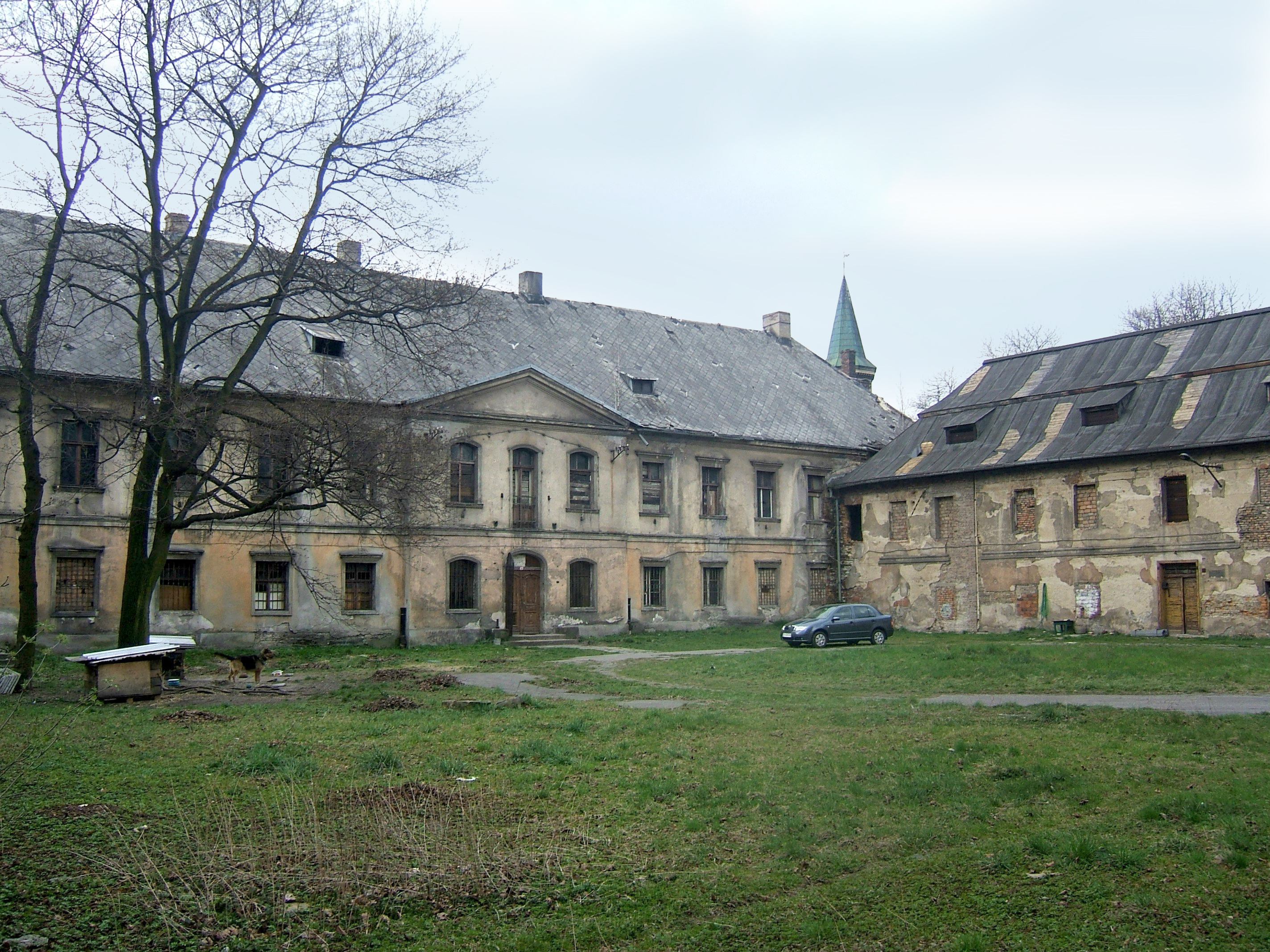 Palac of the Donnersmarck family in Siemianowice Śląskie